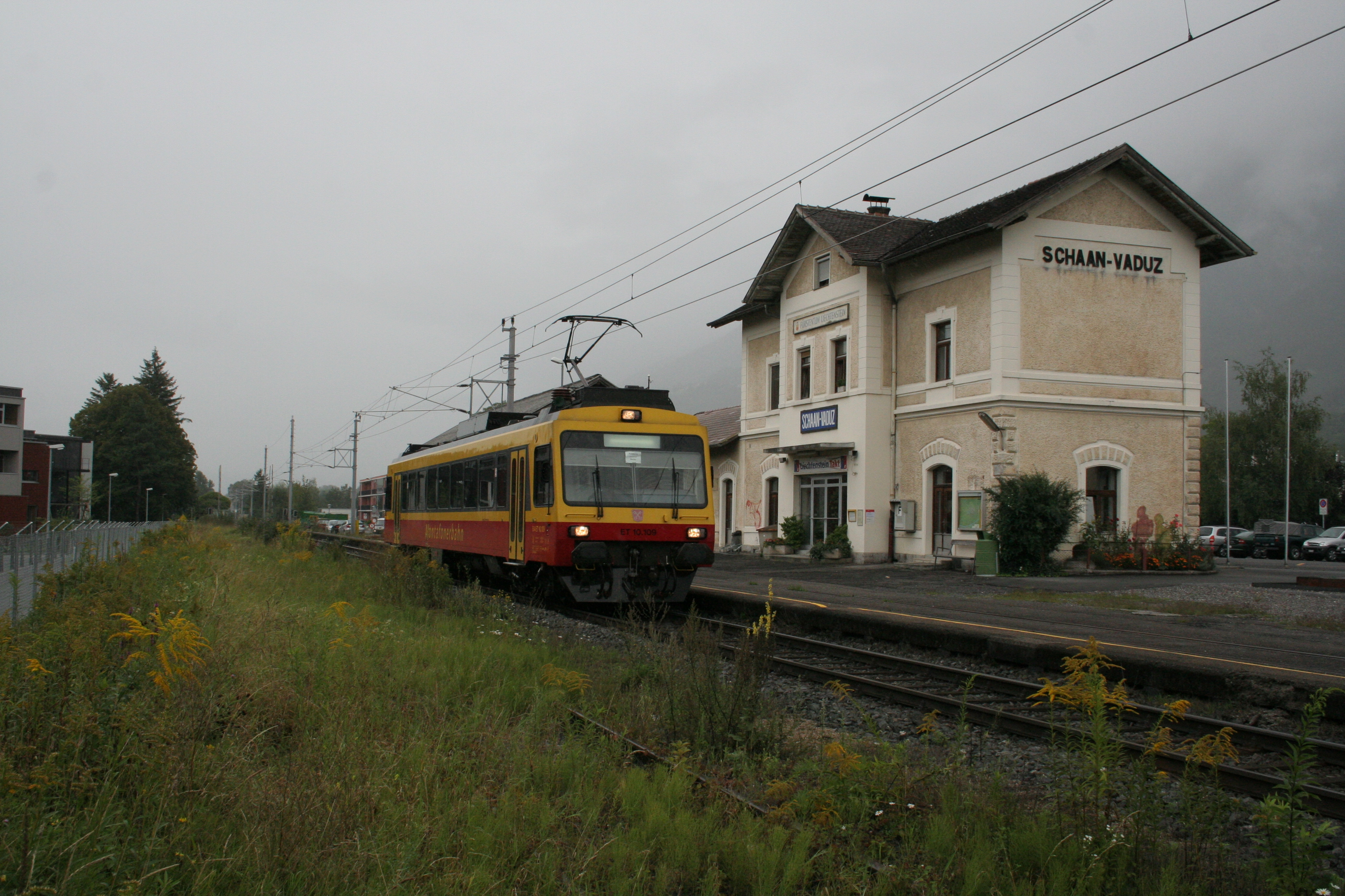 Train station of Vaduz-Schaan in Schaan, Liechtenstein in 2007